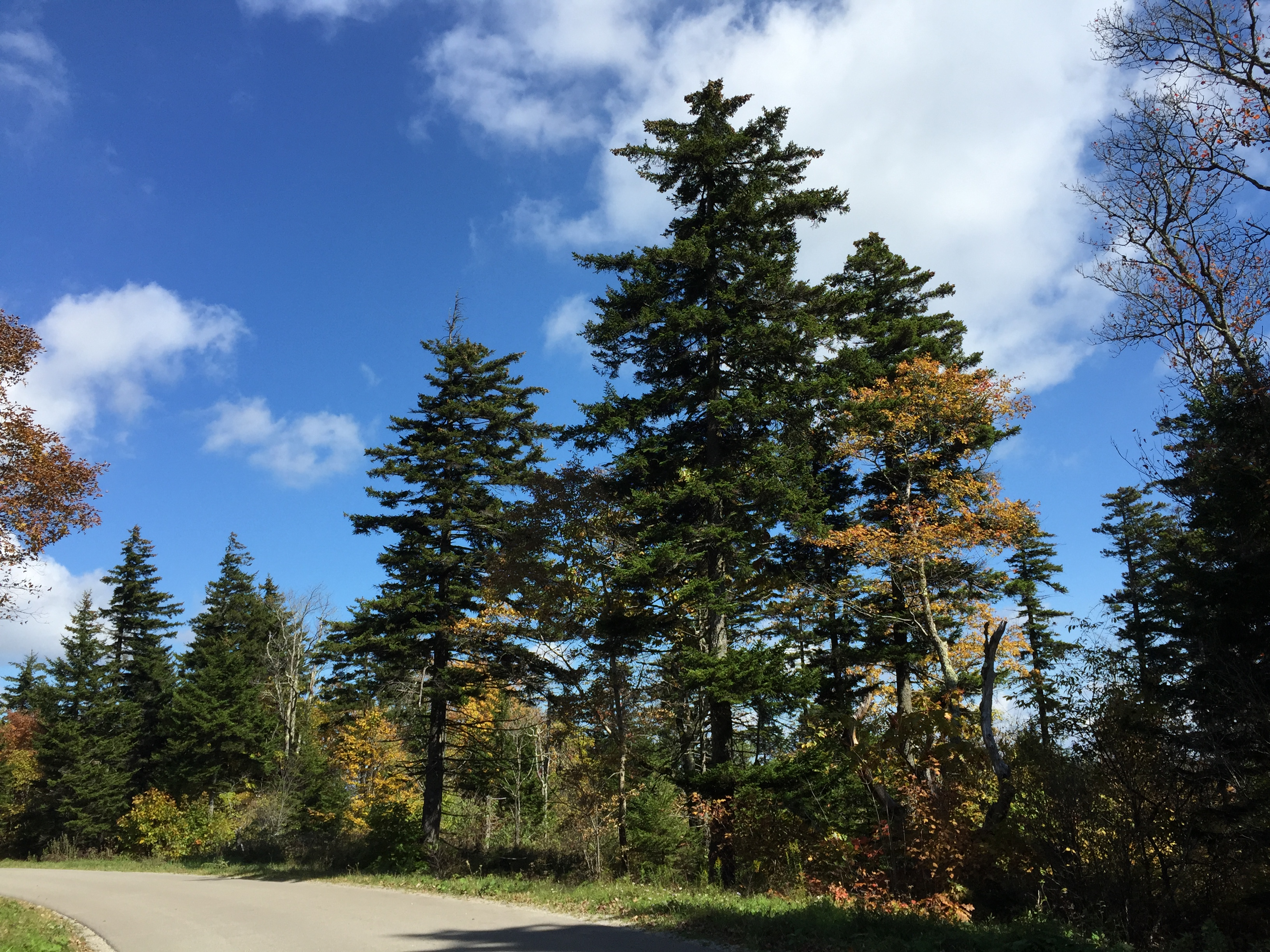 Red Spruce trees along National Forest Road 112 just south of Spruce Knob, West Virginia